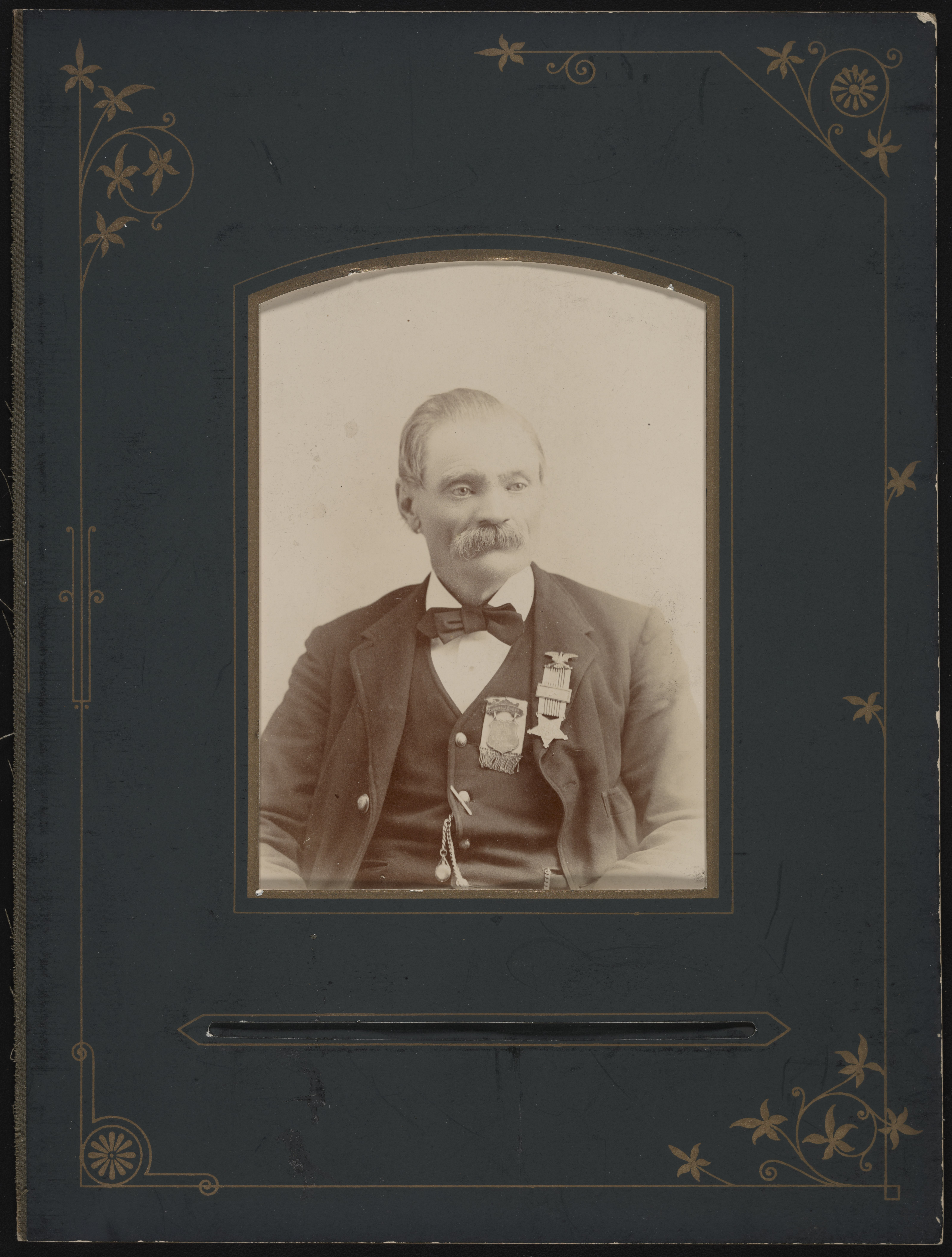 Title: Civil War veteran Thomas J. Owens] / Dunlap, Chillicothe, Missouri Abstract/medium: 1 photograph : print ; image 14 x 10 cm (cabinet card format), mat 27 x 20 cm.